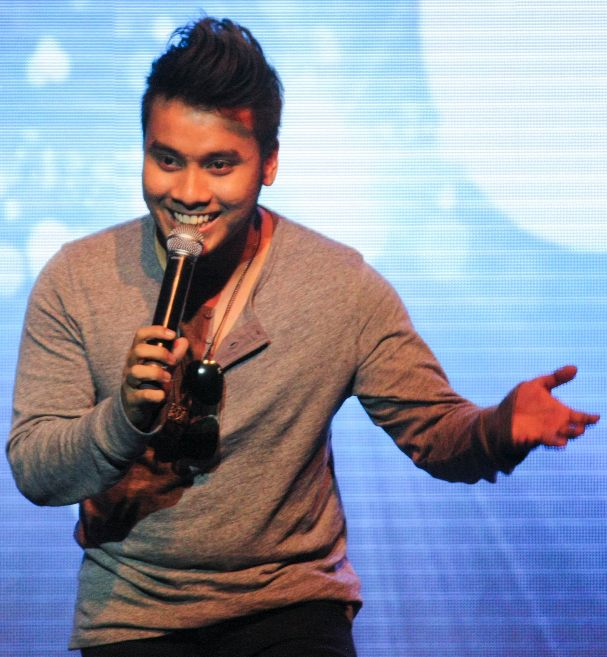 Awi Rafael during the WeChat Party at Neverland, Kuala Lumpur on April 2, 2013.